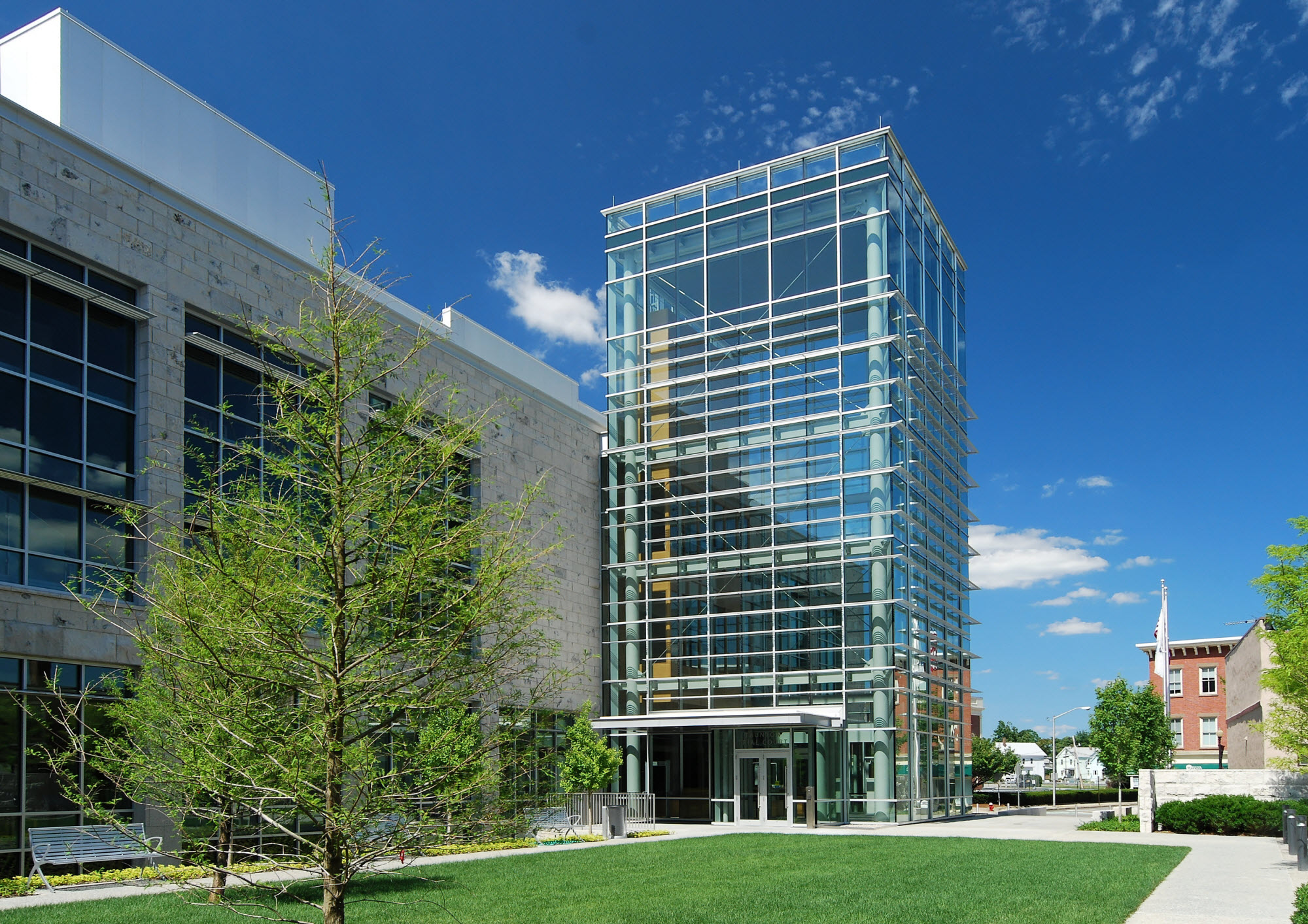 Taunton Trial Court (main entrance side), completed in 2011., Taunton, Massachusetts